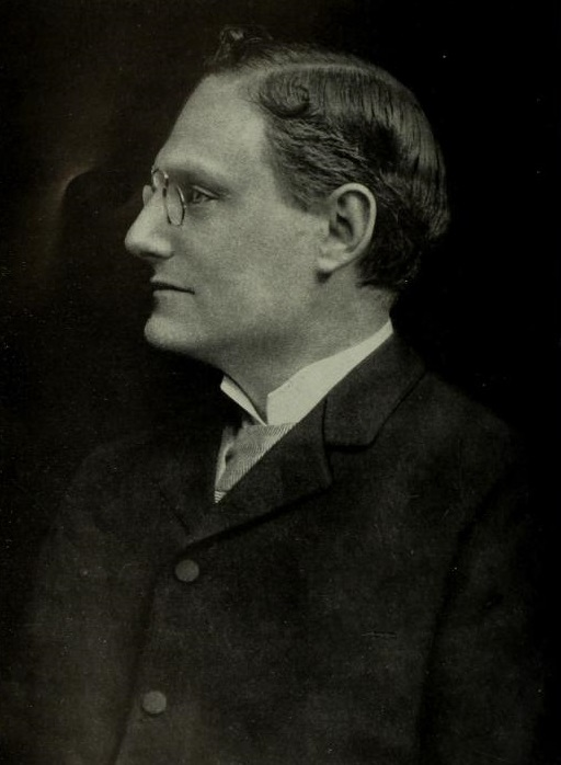 Portrait of Charles Sprague Smith